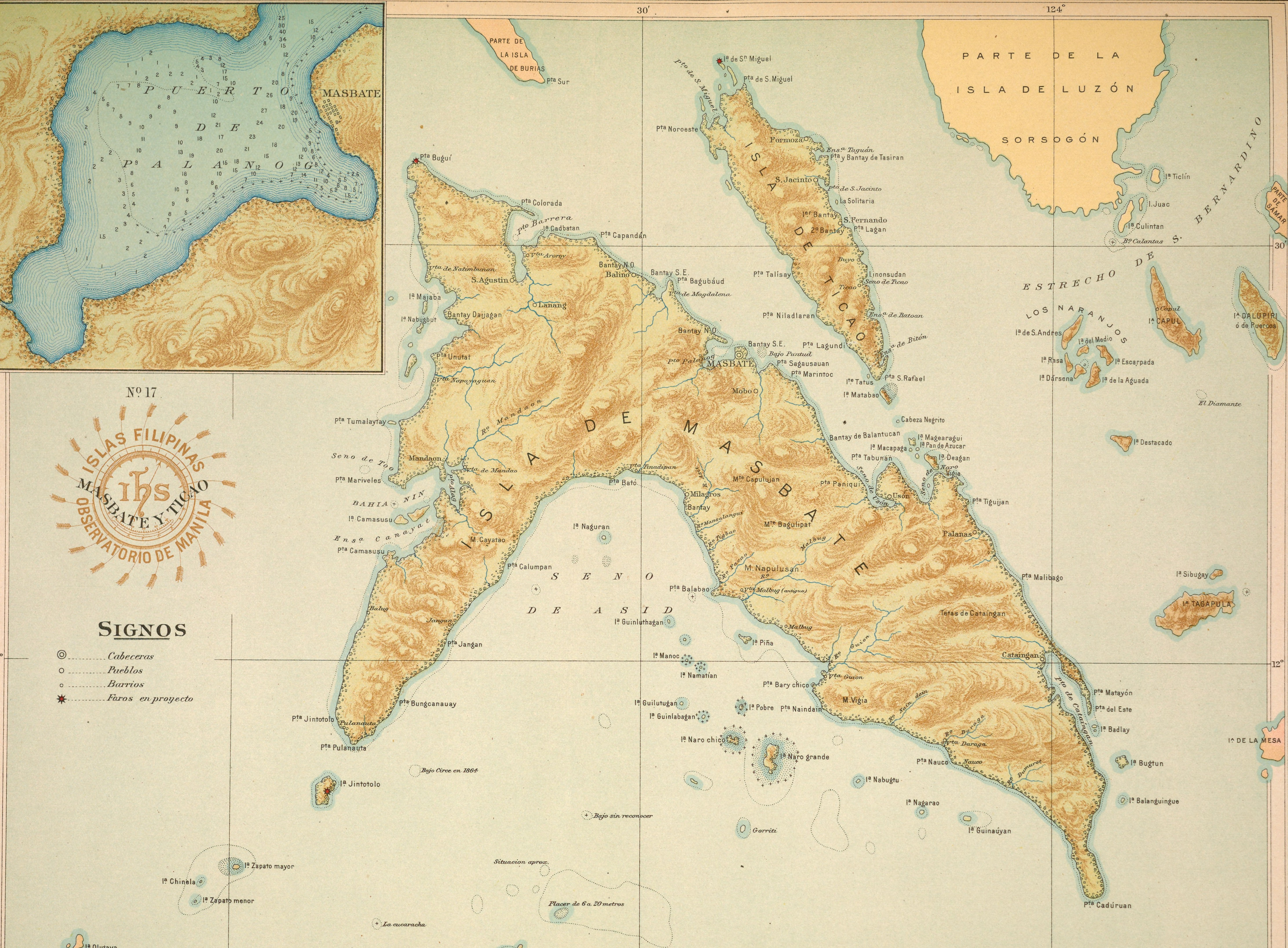 Title: Atlas of the Philippine Islands Year: 1900 (1900s) Authors: Algué, José, 1856- Algue, P. Jose, 1856- U.S. Coast and Geodetic Survey Subjects: Publisher: Washington : Govt. Print. Off. Text Appearing Before Image: Lonéitud E. del Meridiano de Greenwich. UNITED STATES COAST AND GEODETIC SURVEY. N9 17. Text Appearing After Image: a; ^ • 3